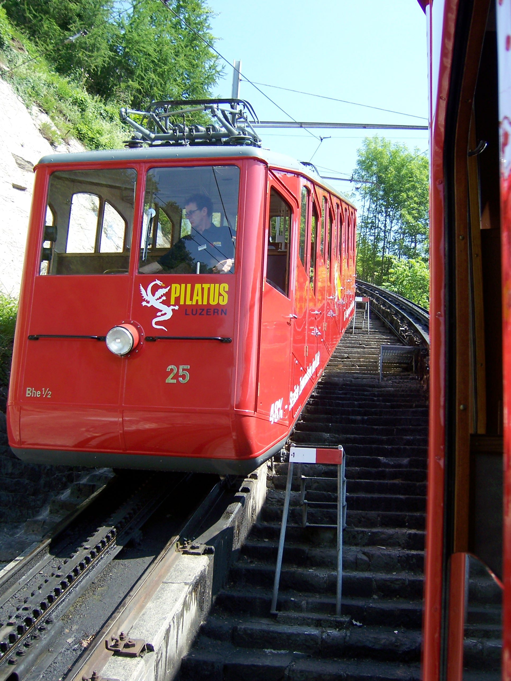 Going up Mount Pilatus on a cogwheel train.